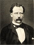 Adolf Lüderitz (1834-1886), Founder of Deutsch-Südwestafrika, today called Namibia